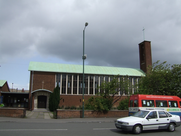 All Saints Church, Darlaston Next to the new mosque on the Walsall to Darlaston Road in Fallings Heath.